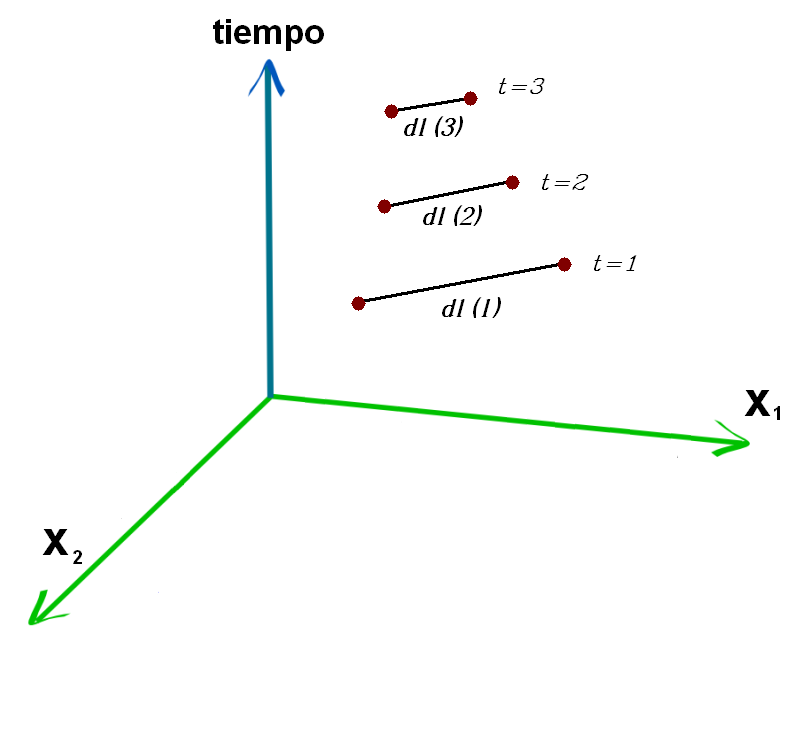 This is a picture which shows the effects of the change of the metric tensor with the time. Author